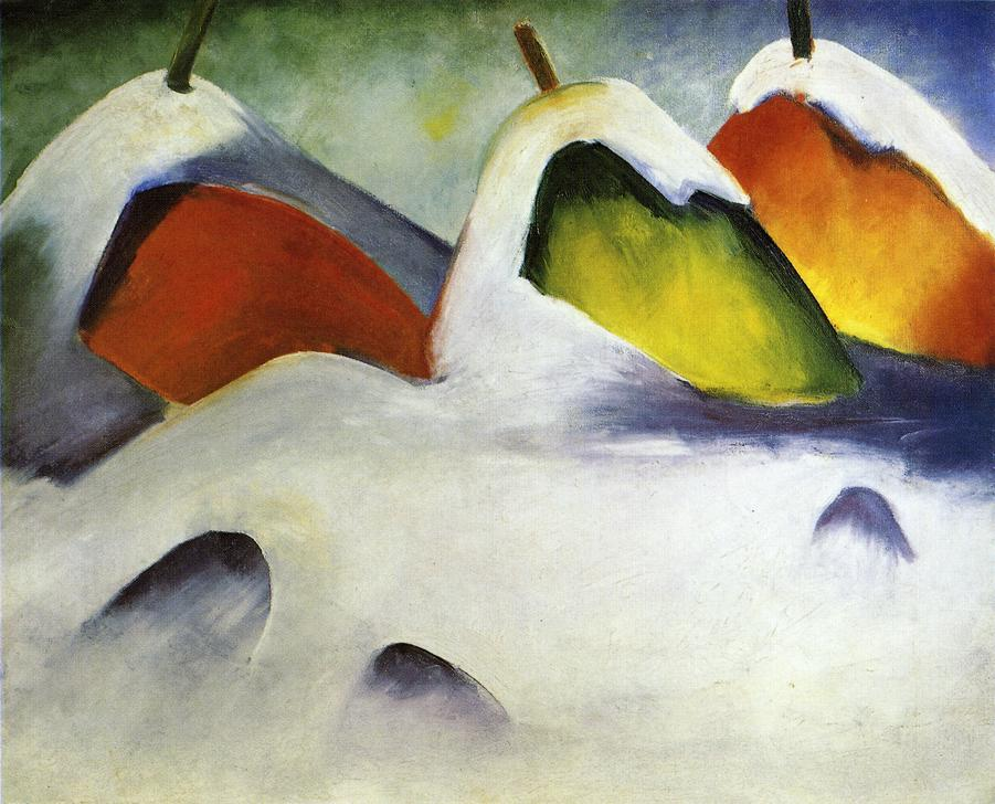 "Haystacks in the Snow," oil on canvas, by the German artist Franz Marc. 79.5 cm x 39.37 cm (31.3 in. x 39.37 in.) Courtesy of the Franz Marc Museum, Germany. Image courtesy of The Athenaeum.